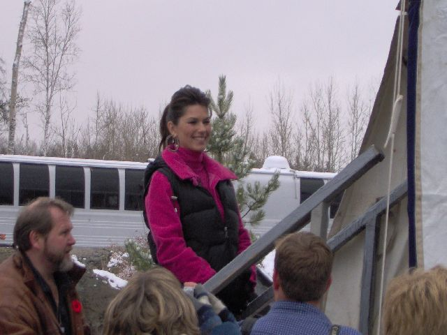 Picture by Ren Gaudreau, GFDL, taken Nov 2nd 2004, Timmins, ON, CANADA